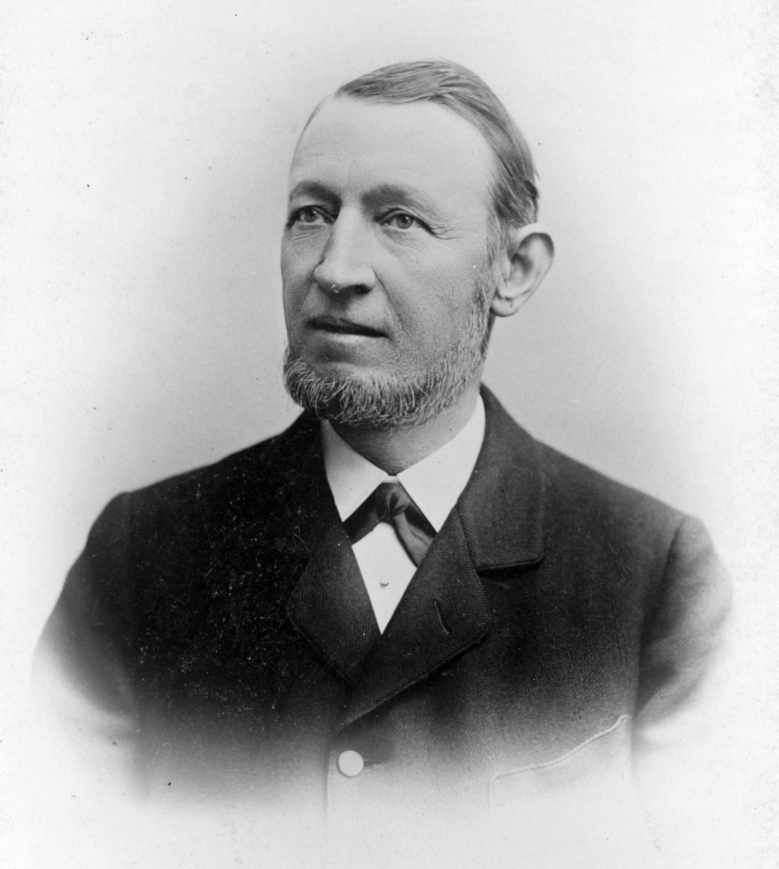 German zoologist Carl Hagenbeck (1844-1913)